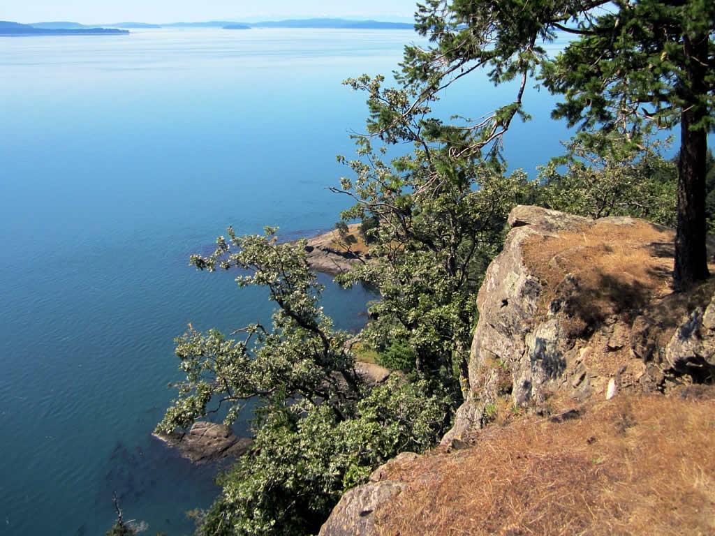 garry oak growing on Monarch Head, Saturna Island, British Columbia, Canada